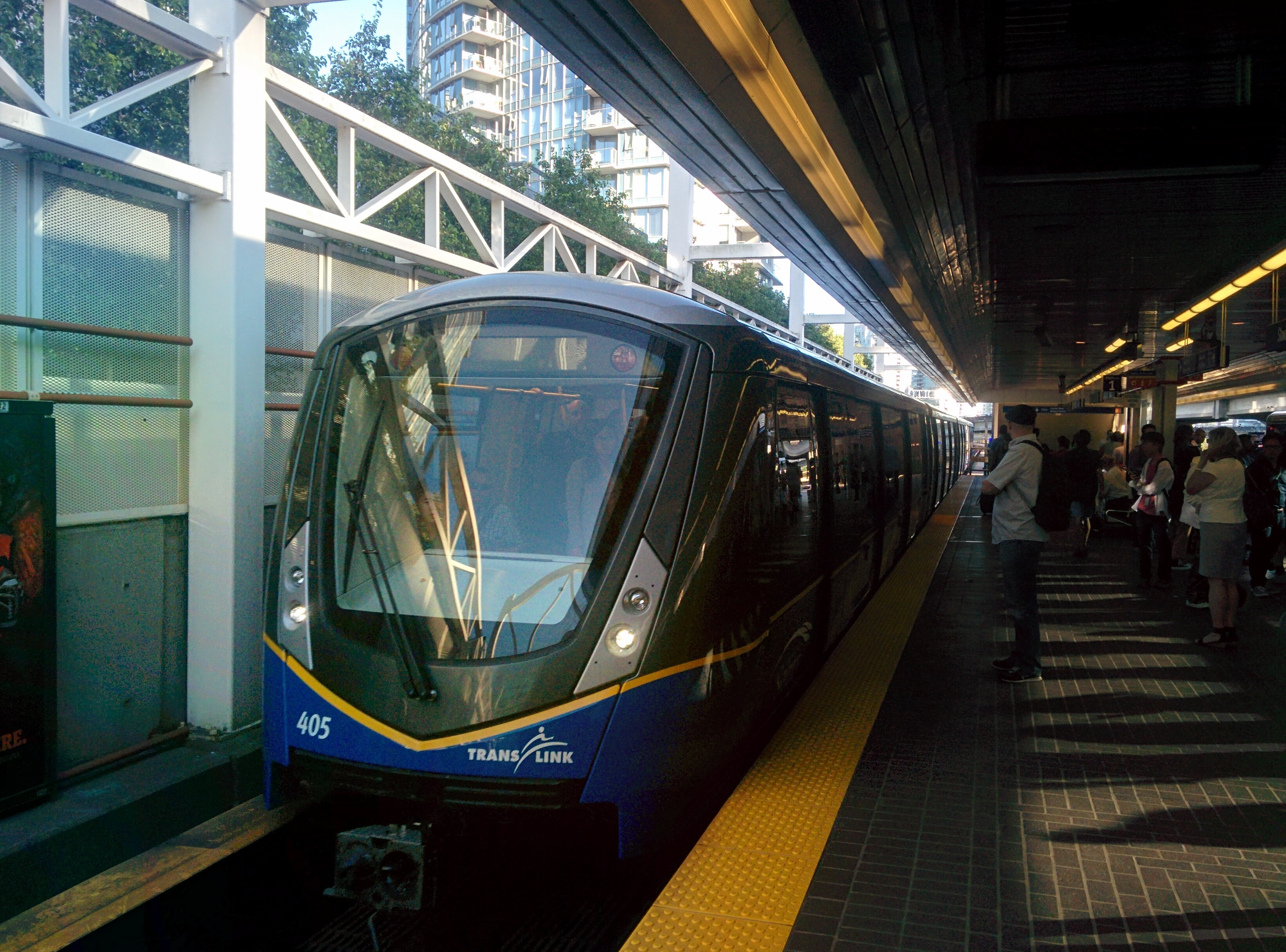 New 4-car Bombardier Innovia Metro 300 (ART Mark III) train arriving at Stadium Chinatown Station in Vancouver.